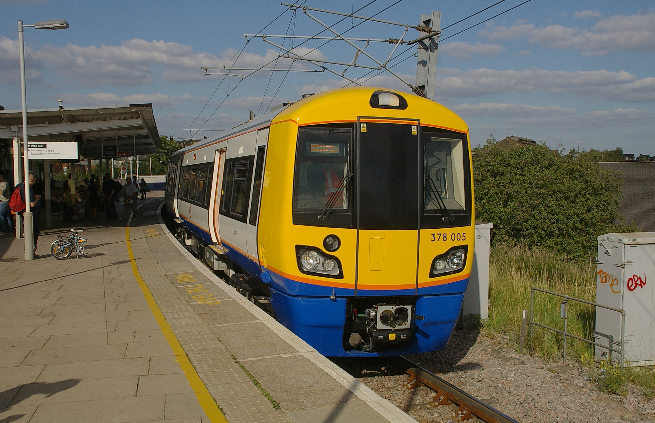 London Overground 378005 at Willesden Junction railway station with a North London Line service to Richmond.